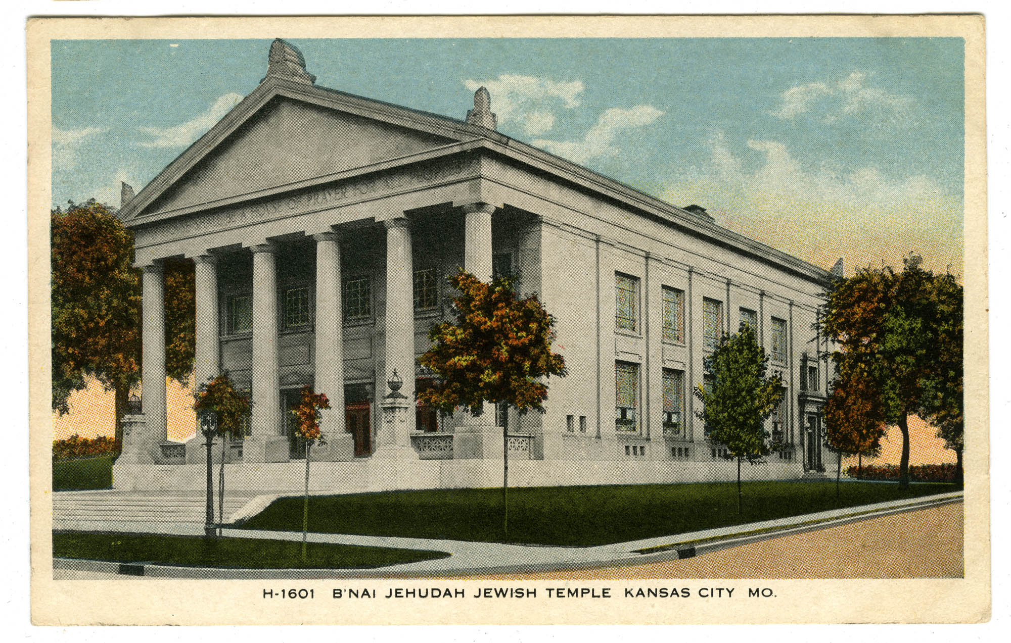 The B'nai Jehudah Temple on Linwood Avenue in Kansas City, Missouri. It opened in 1908.